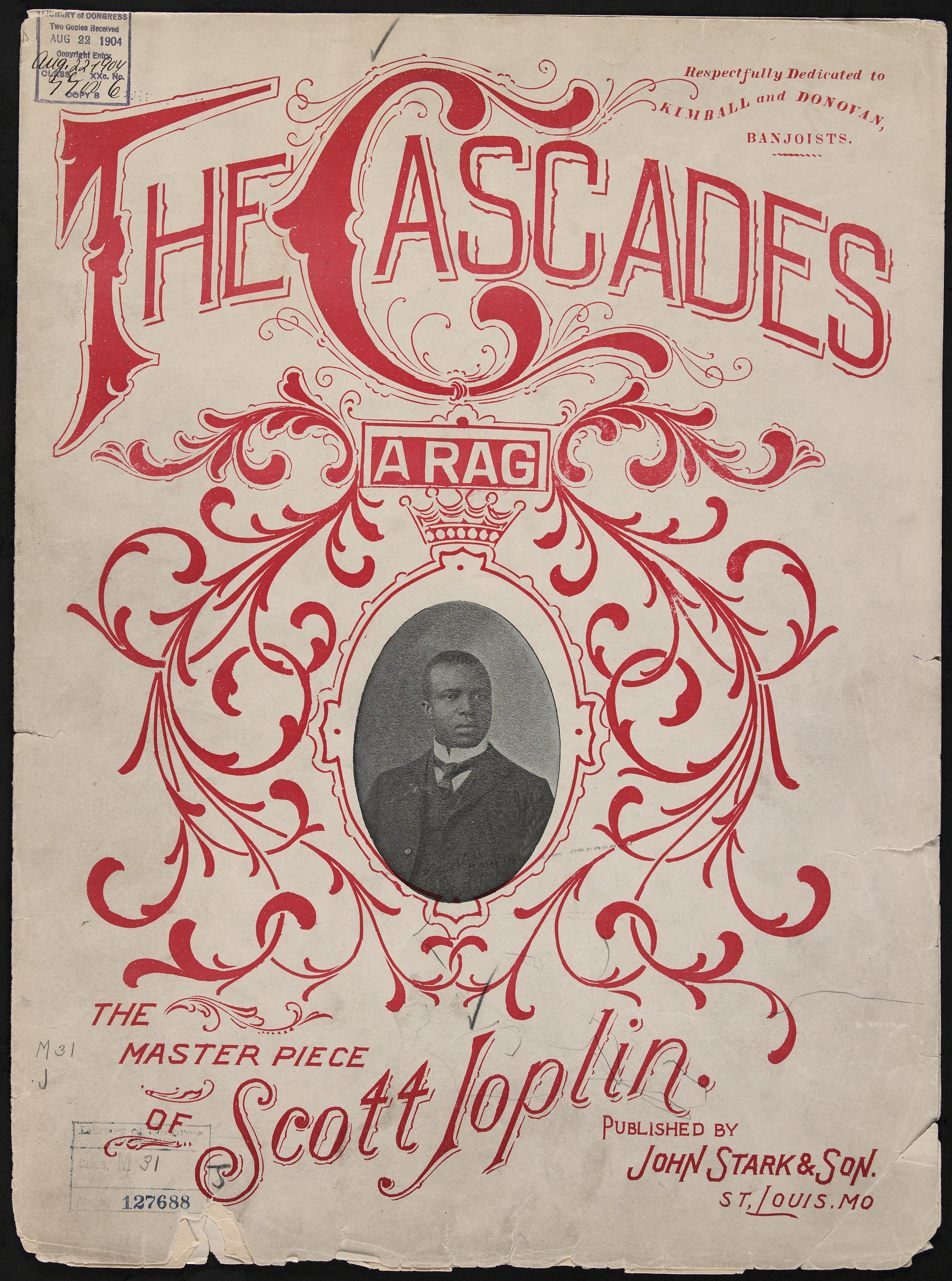 "The Cascades" (sheet music) Page 1 of 5